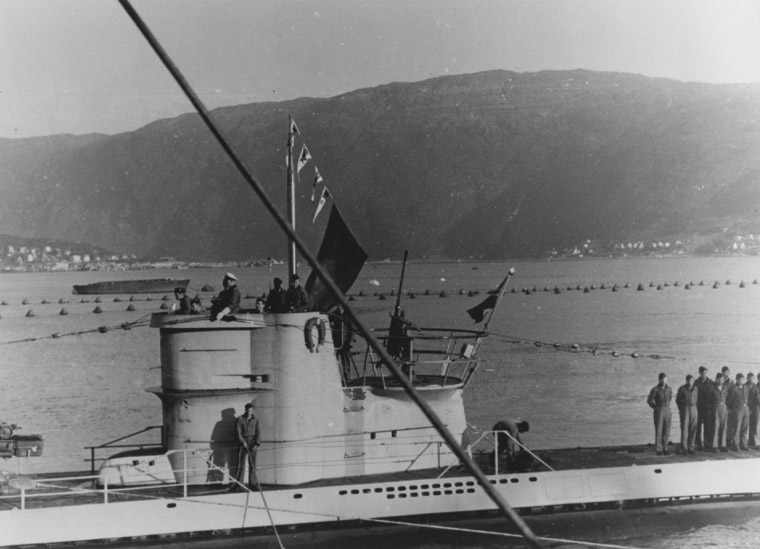 U-255 is flying four victory penants and the flag of the merchant ship SS Paulus Potter.